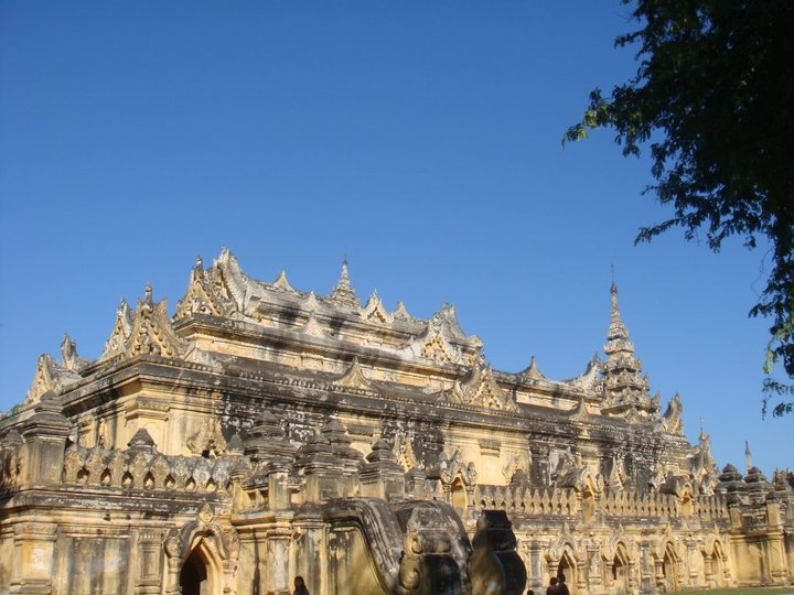 Mal Nu Monastery in Innwa, Mandalay